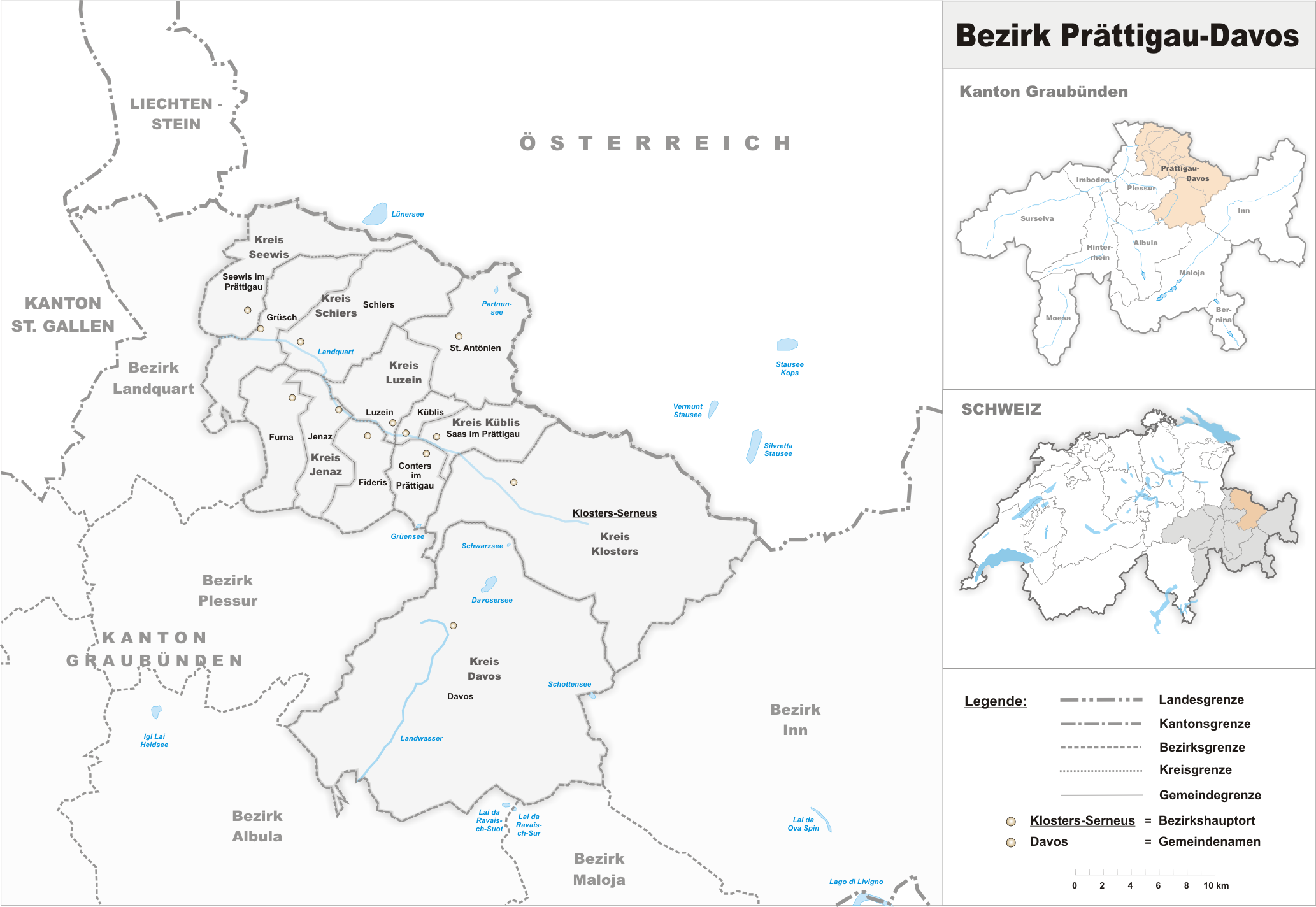 Municipalities in the district of Prättigau-Davos